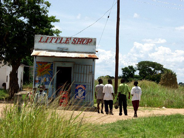 A compound store in Kabwe, with electricity, which is the largest and best-equipped shop within 10 km. Kabwe, Zambia, March 6, 2003 Photo taken March 6, 2003 by U.S. Embassy Lusaka employee Alison Jackson source